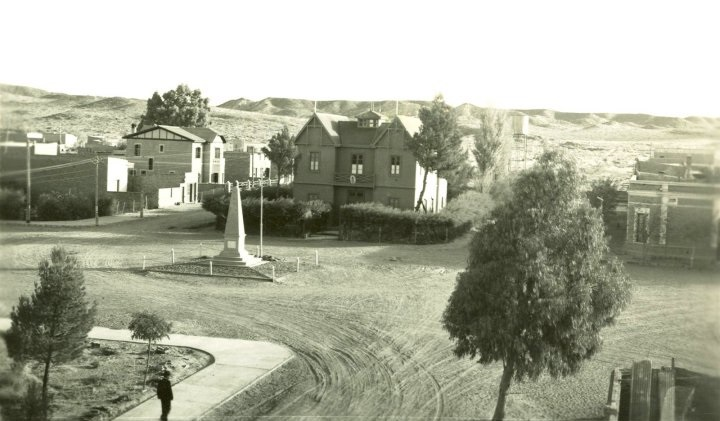 Neuquen's Argentina avenue. The former townhall, the "Chateaux Gris", was demolished in 1953 and the pyramid was relocated the same year for the construction of the San Martín Monument.